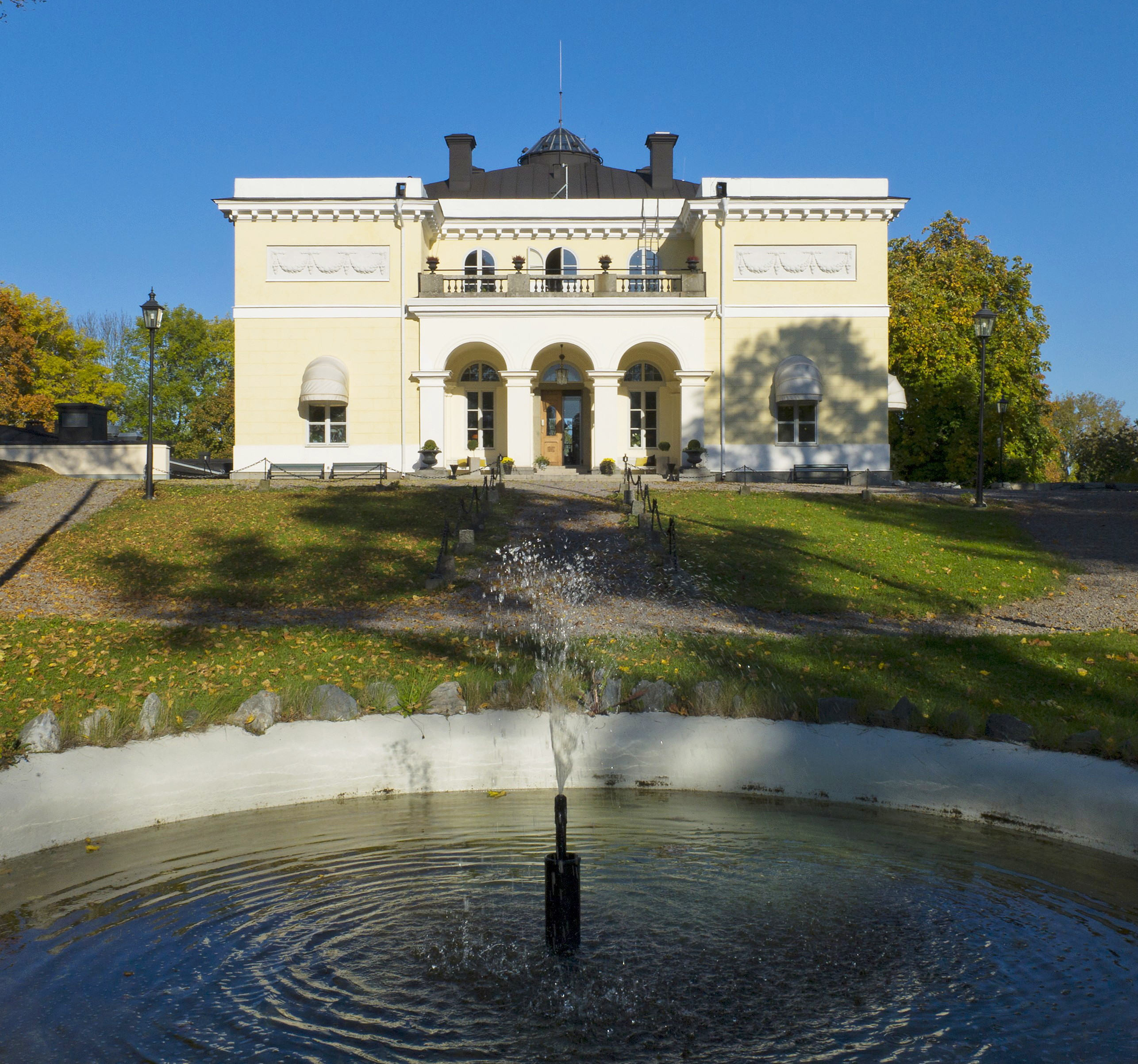 Aske manor. Italian inspired stone villa in neoclassical style, built in 1802-09.